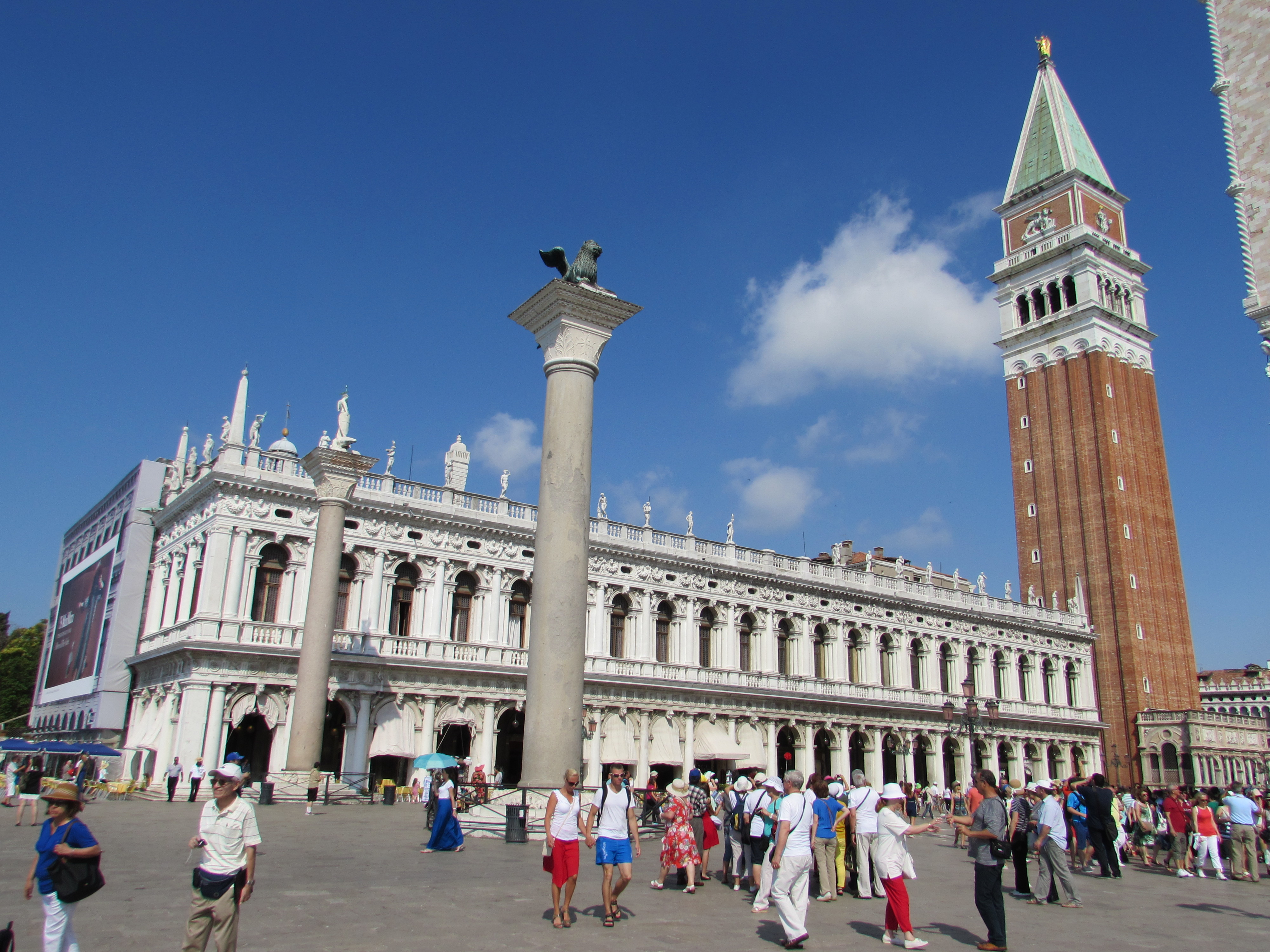 Libreria Marciana (Venice)